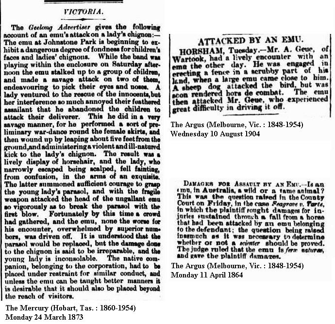 from the National Library Australian newspapers digitisation program which are pre-1955 so no copyright: "The service includes newspapers published in each state and territory from the 1800s to the mid-1950s, when copyright applies."